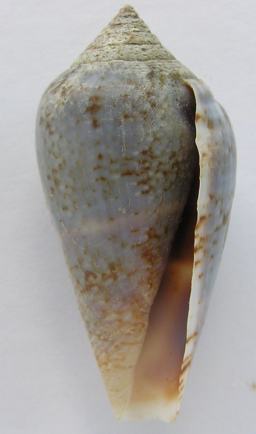 Conus guinaicus Hwass in Bruguière, 1792 (synonym: Conus grayi Reeve, 1844); Senegal